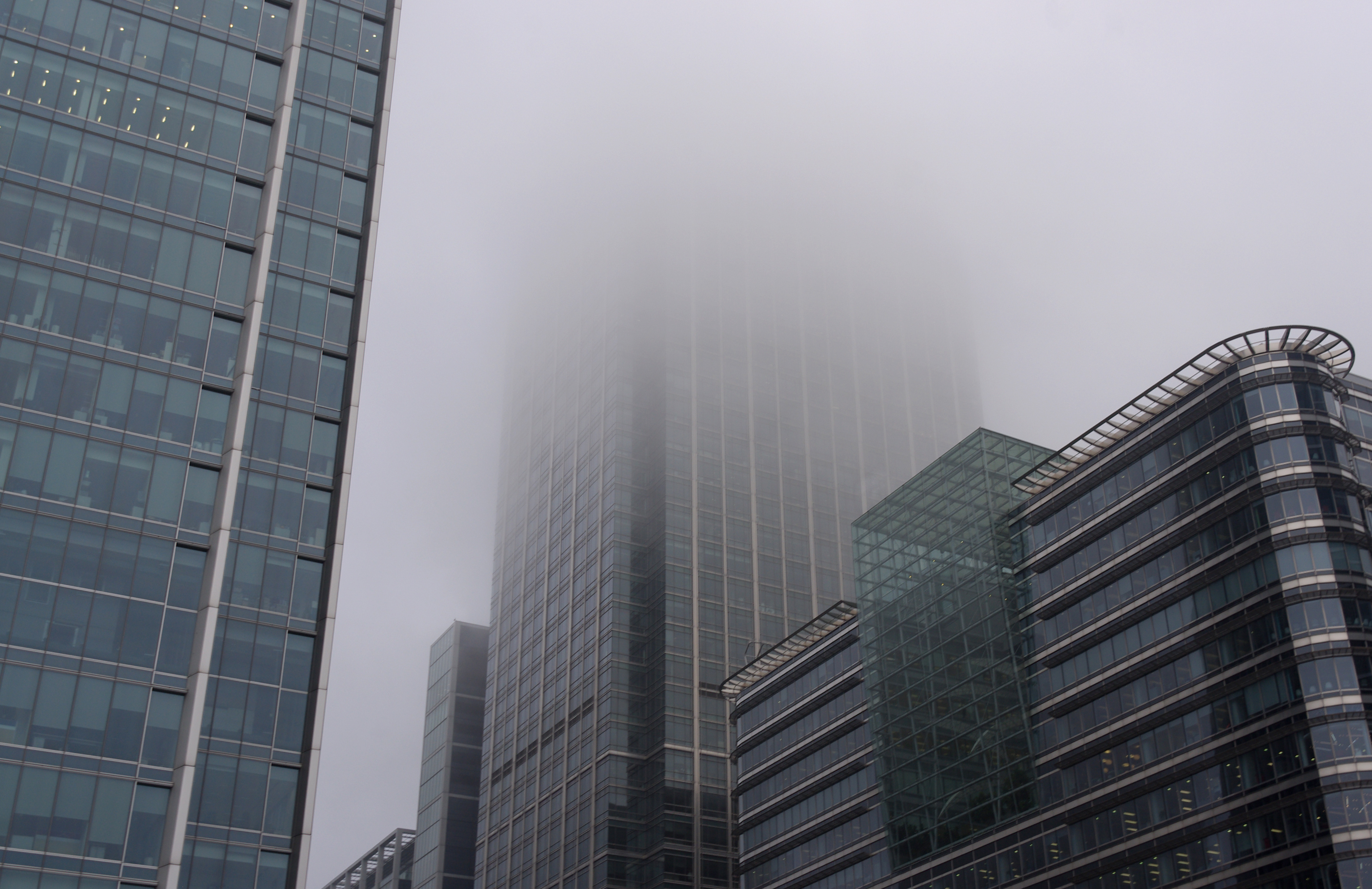 A foggy morning in Canary Wharf - the Citigroup Centre.